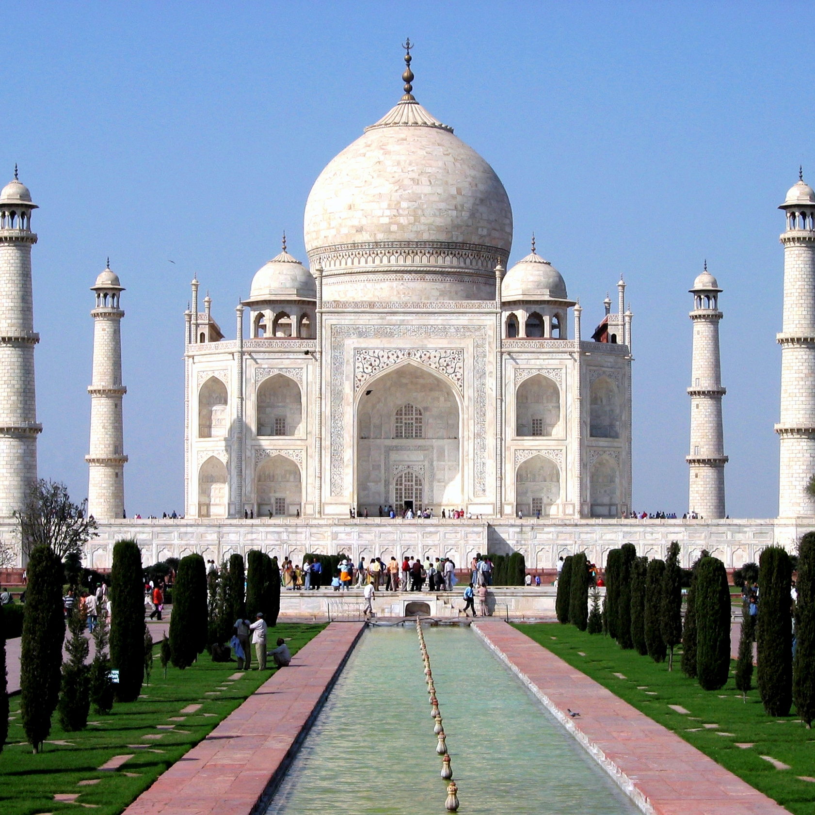 Taj Mahal, Agra, India